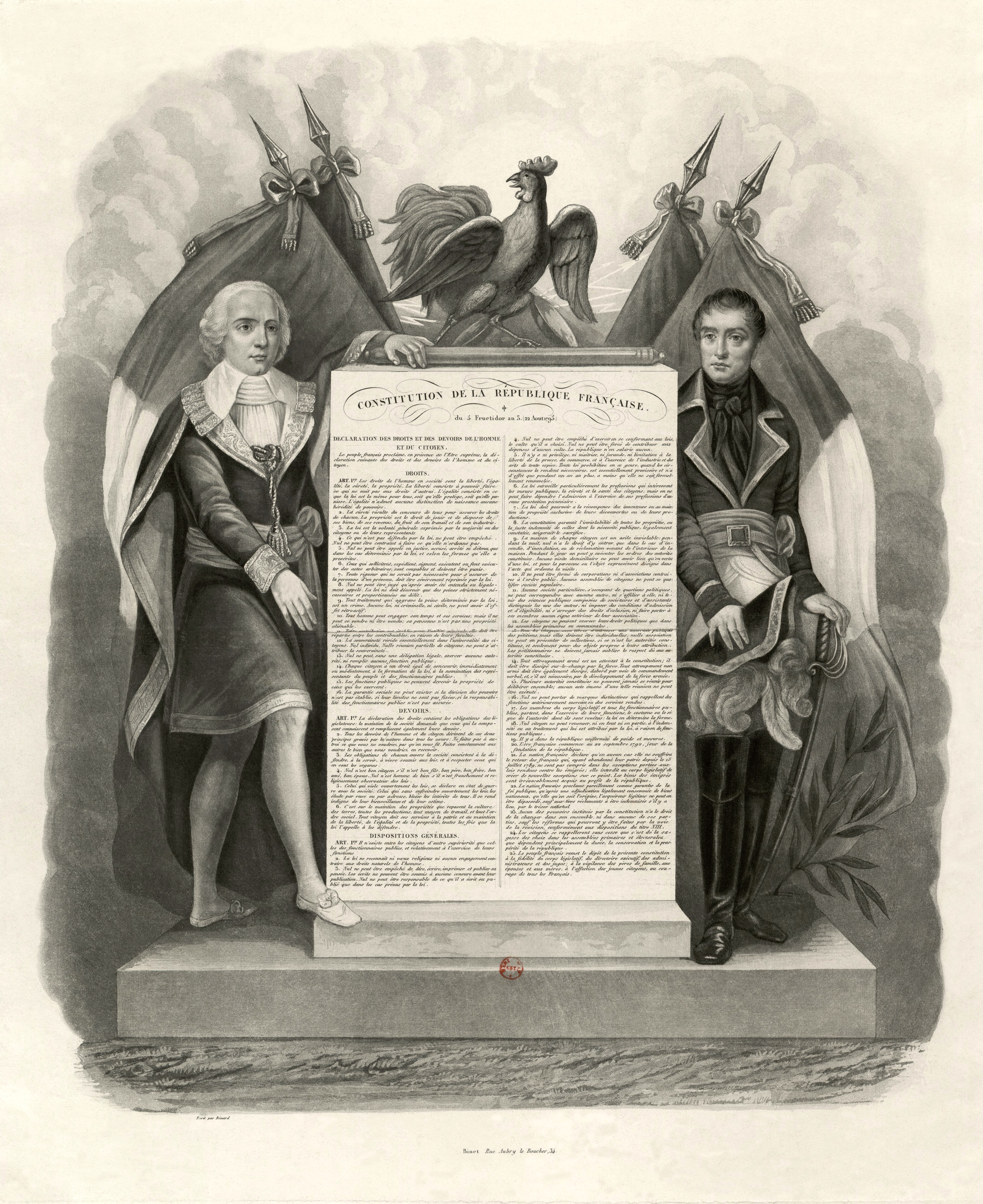 Bill of Rights (Declaration of the rights and duties of the Man and of the Citizen) of the French Constitution of 1795, which founded the Directory.